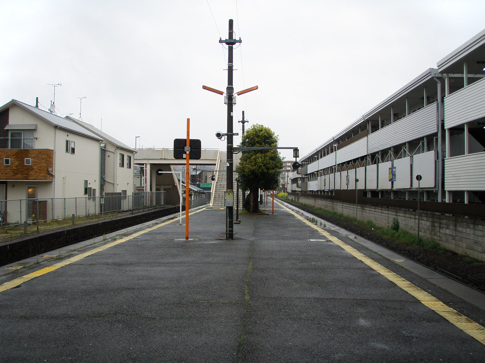 West Japan Railway Tsuyama Line Hōkaiin Station Platform